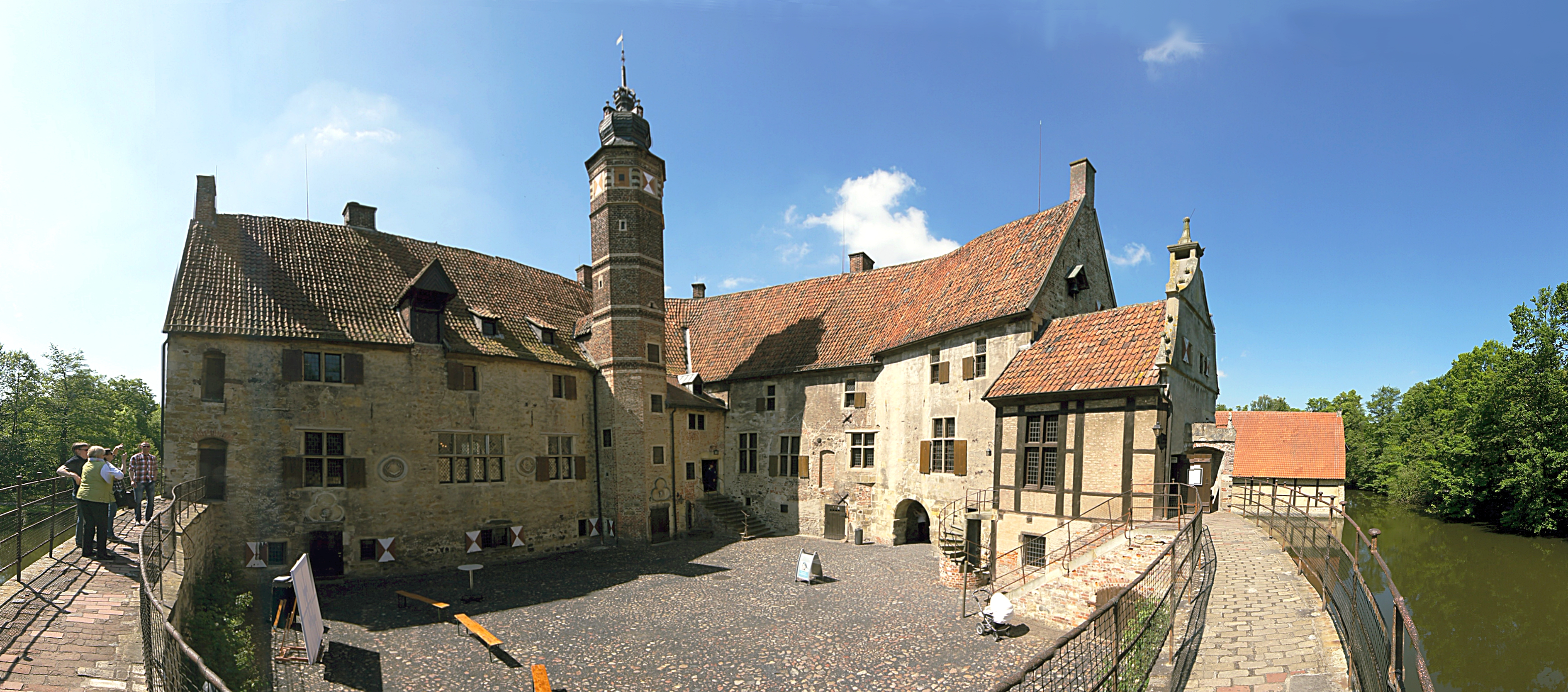 Burg Vischering is a water castle in Lüdinghausen, district of Coesfeld, North Rhine-Westphalia, Germany. This is a photograph of an architectural monument. /012